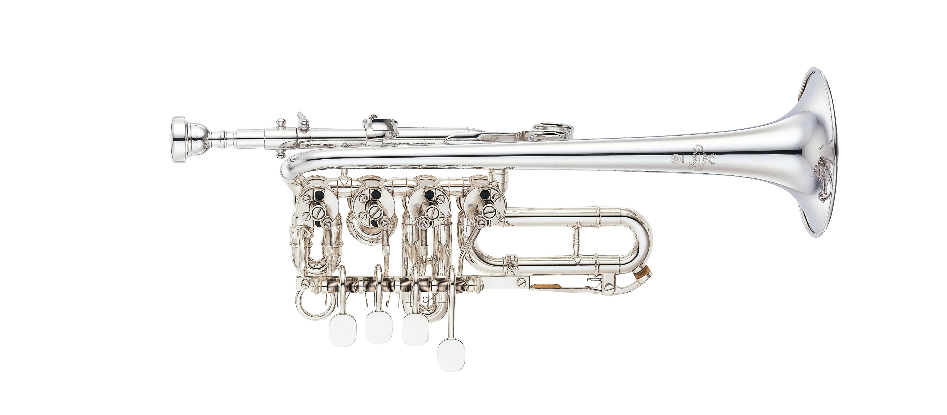 Yamaha Piccolo trumpet, model YTR-988. In Bb, silver-platedyellow brass, four valves.